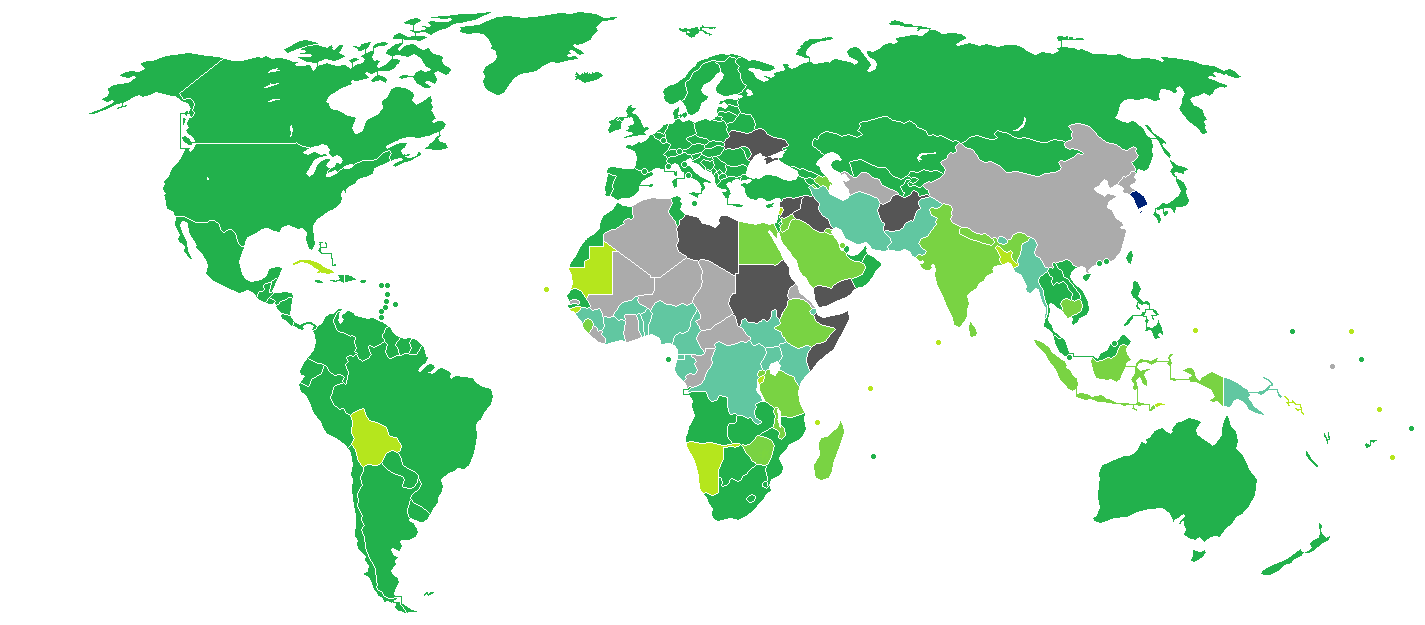 Visa requirements for South Korean citizens South Korea Visa free access Visa on arrival eVisa Visa available both on arrival or online Visa required Travel banned by the South Korean government.